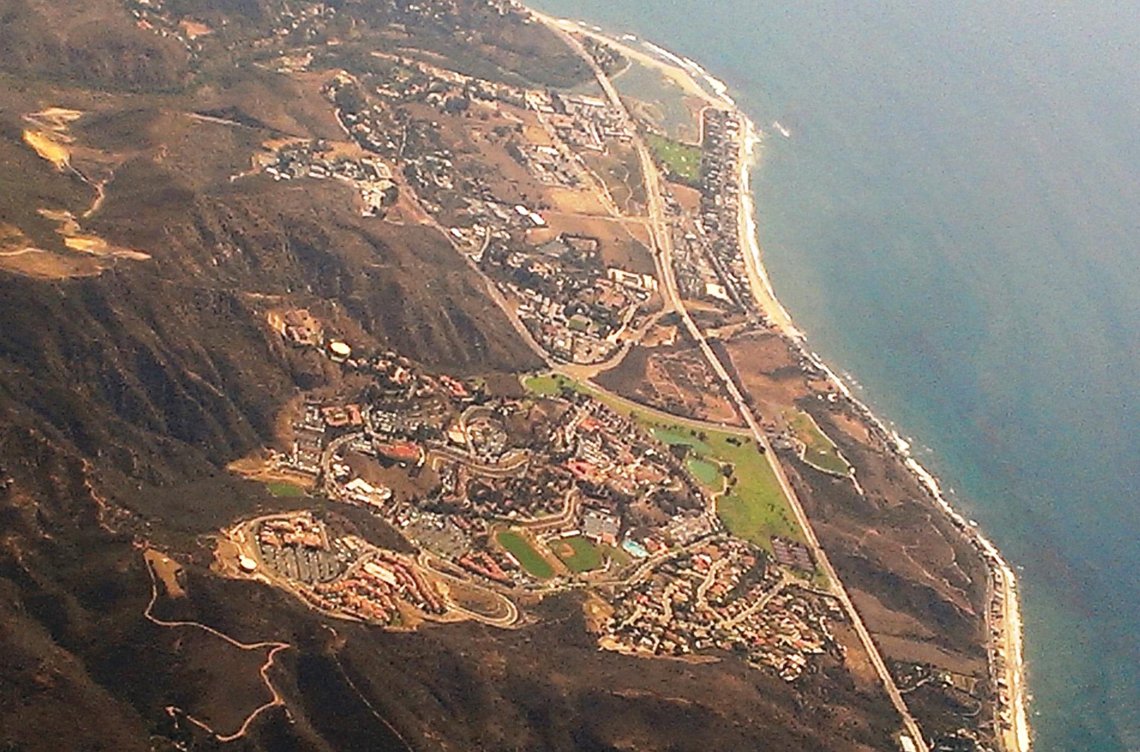 Aerial photograph of Pepperdine University and the Santa Monica Mountains in Malibu, California.